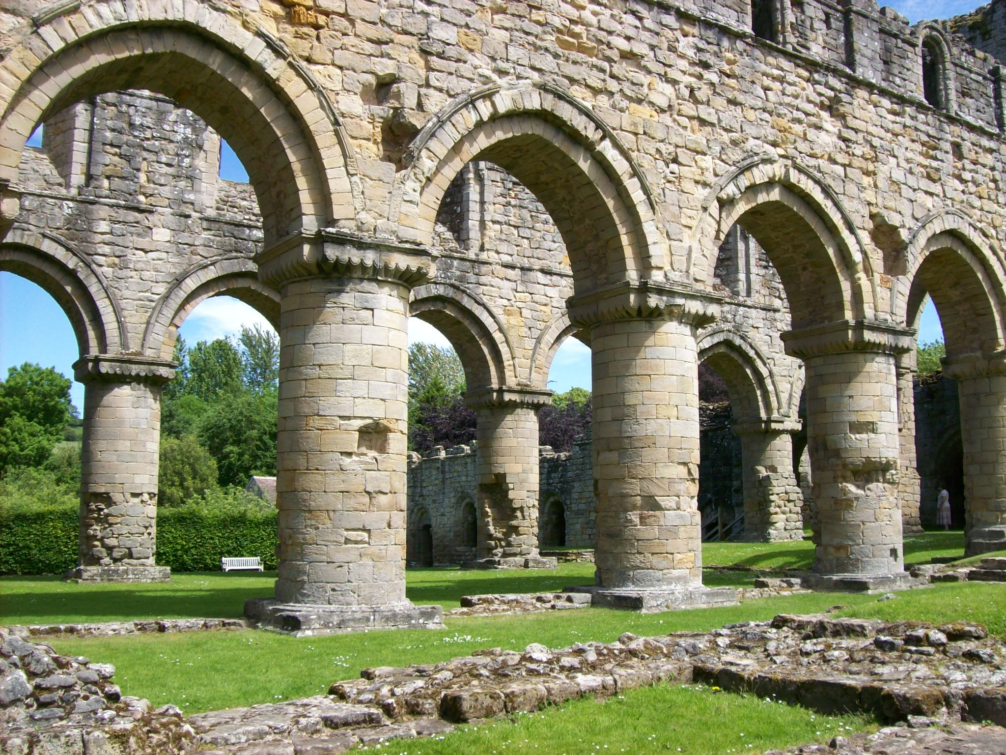 The church, Buildwas Abbey, from the south